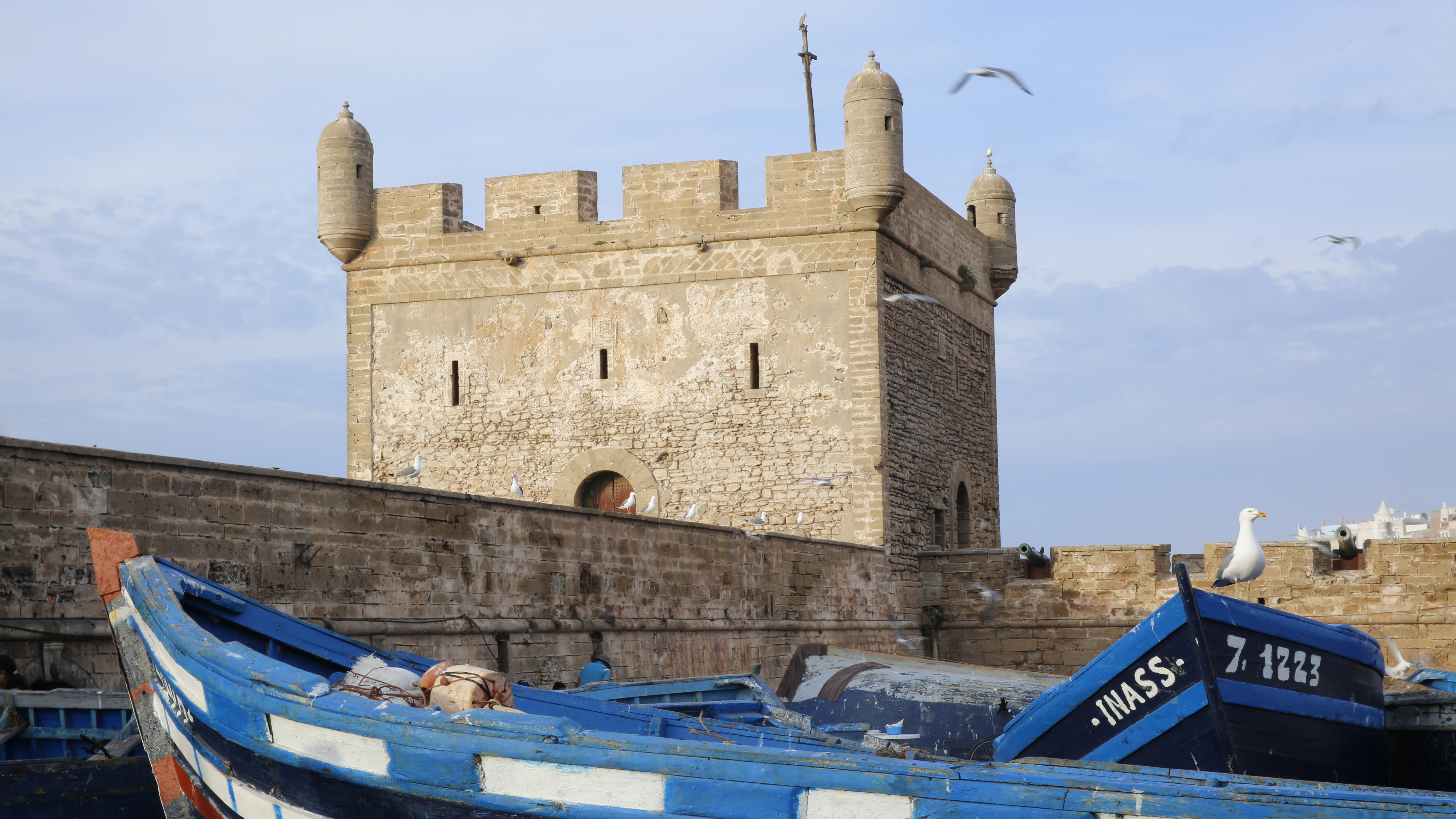 the old fort (Sqala) of Essaouira.